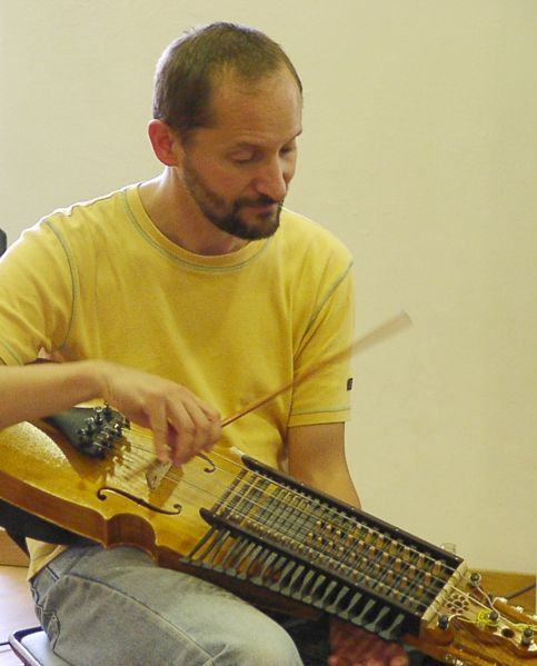 The italien musician Marco Ambrosini playing a nyckelharpa built by Annette Osann during the International Days of the Nyckelharpa at Burg Fürsteneck in Germany.